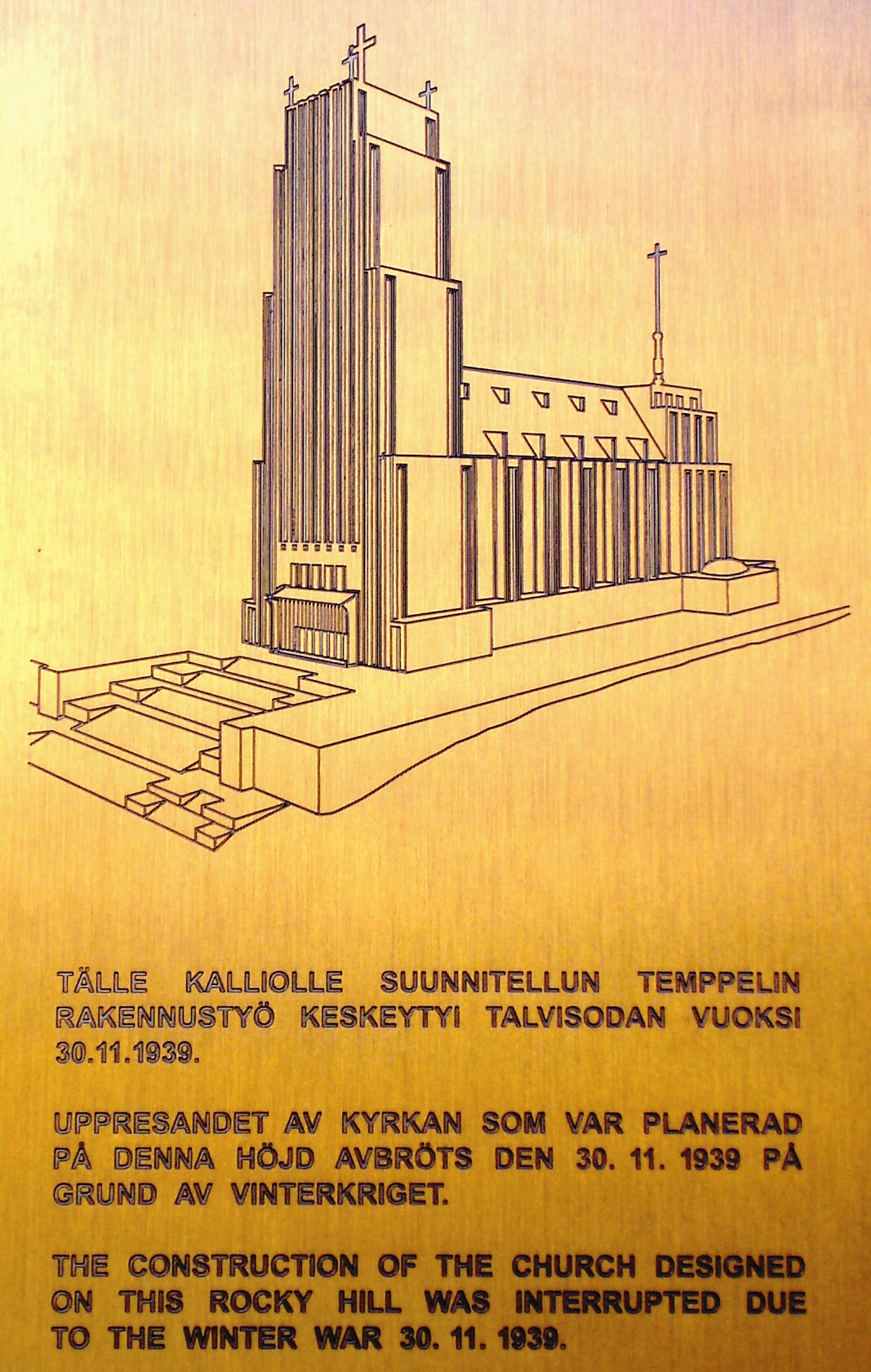 Temppeliaukio Church – Project 1939